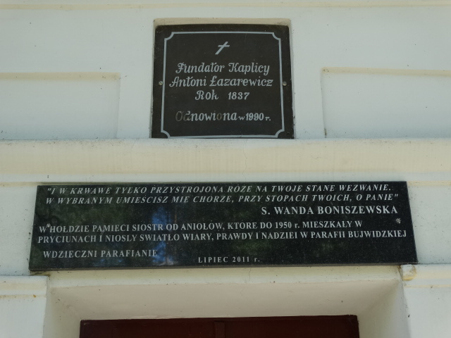 St. Ignatius Chapel, memorial plaque, Pričiūnai, Vilnius District, Lithuania